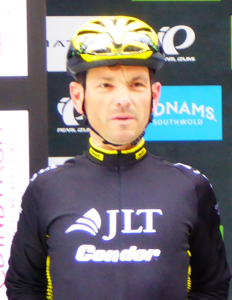 Graham Briggs, pictured at Round 3 of the Pearl Izumi Tour Series in Edinburgh on 19 May 2016.